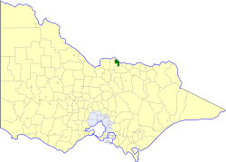 Location of the Shire of Cobram within Victoria.